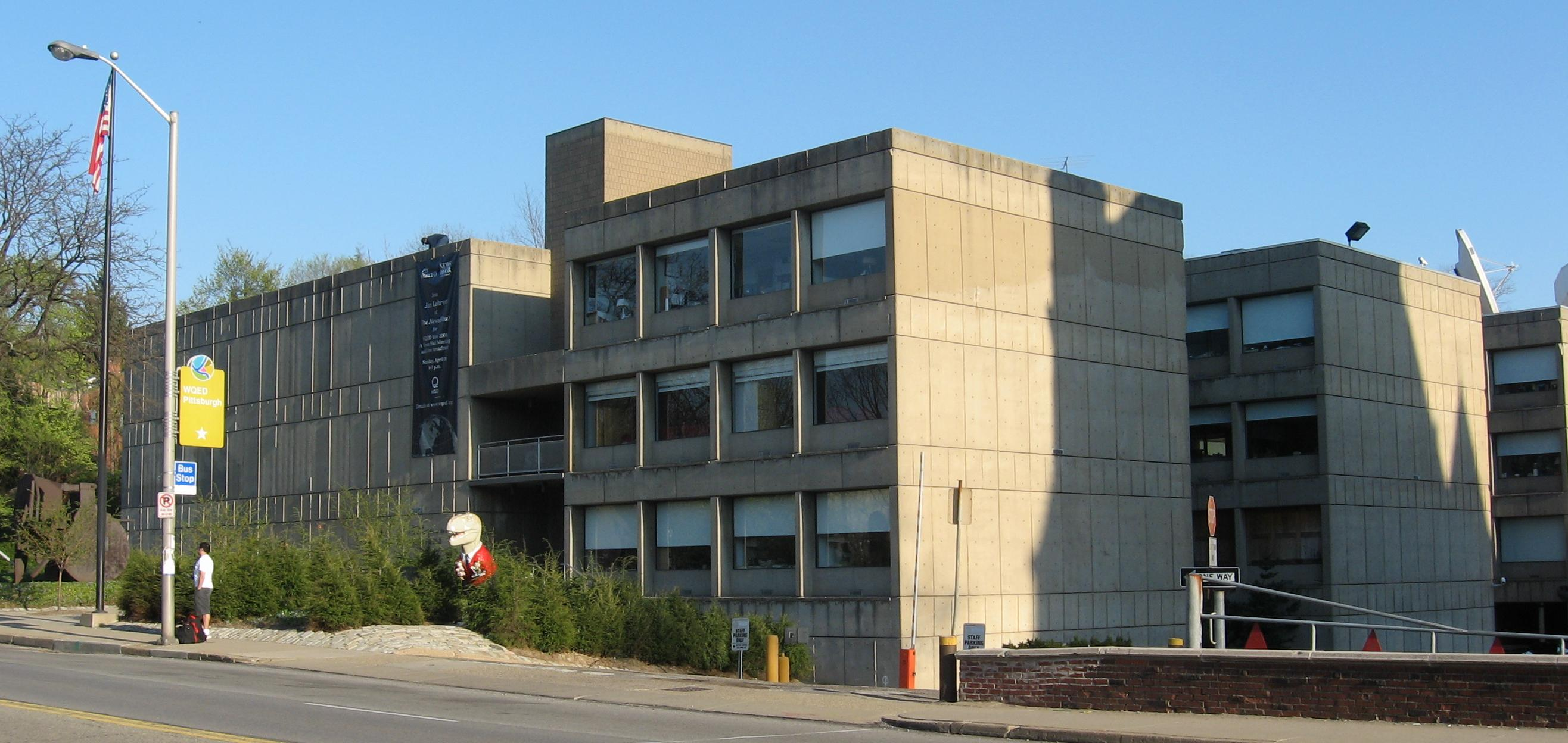 WQED's headquarters in Pittsburgh 40°26′49.1″N 79°56′41.2″W / 40.446972°N 79.944778°W